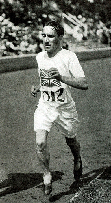 Sport, Athletics, 1912 Olympic Games in Stockholm, Mens 10,000 metres Heat 3, pic: 7th July 1912, Great Britain's W, Scott, (2nd).